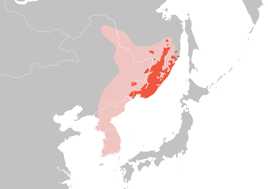 Panthera tigris tigris range map in the late 19th century and 2010s from Shaer, M. 2015 "Can the Siberian tiger make a comeback?" in Smithsonian Magazine. Includes national borders.